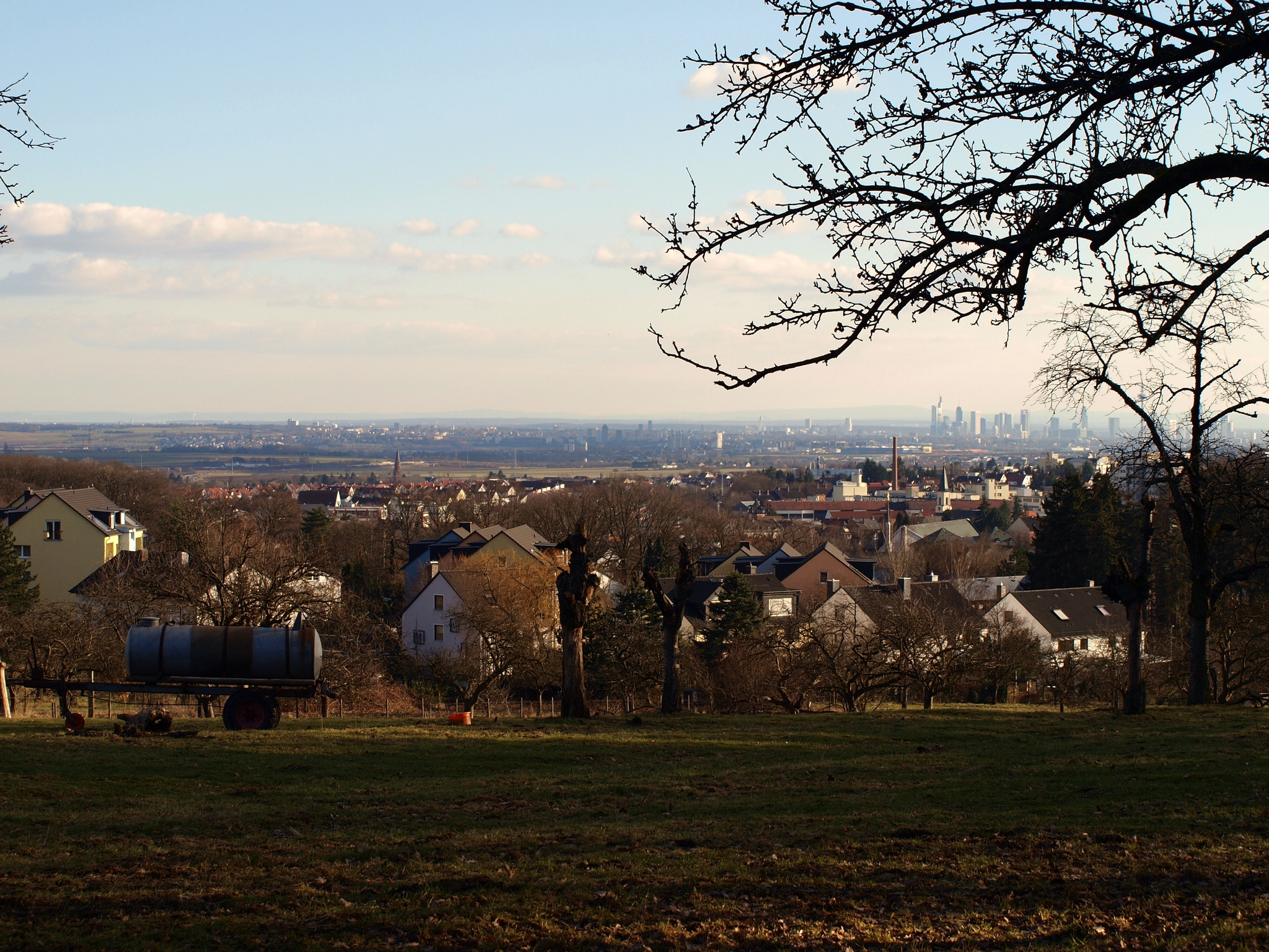 View from Friedrichsdorf's district Dillingen over downtown, district Seulberg and Frankfurt to the Odenwald.